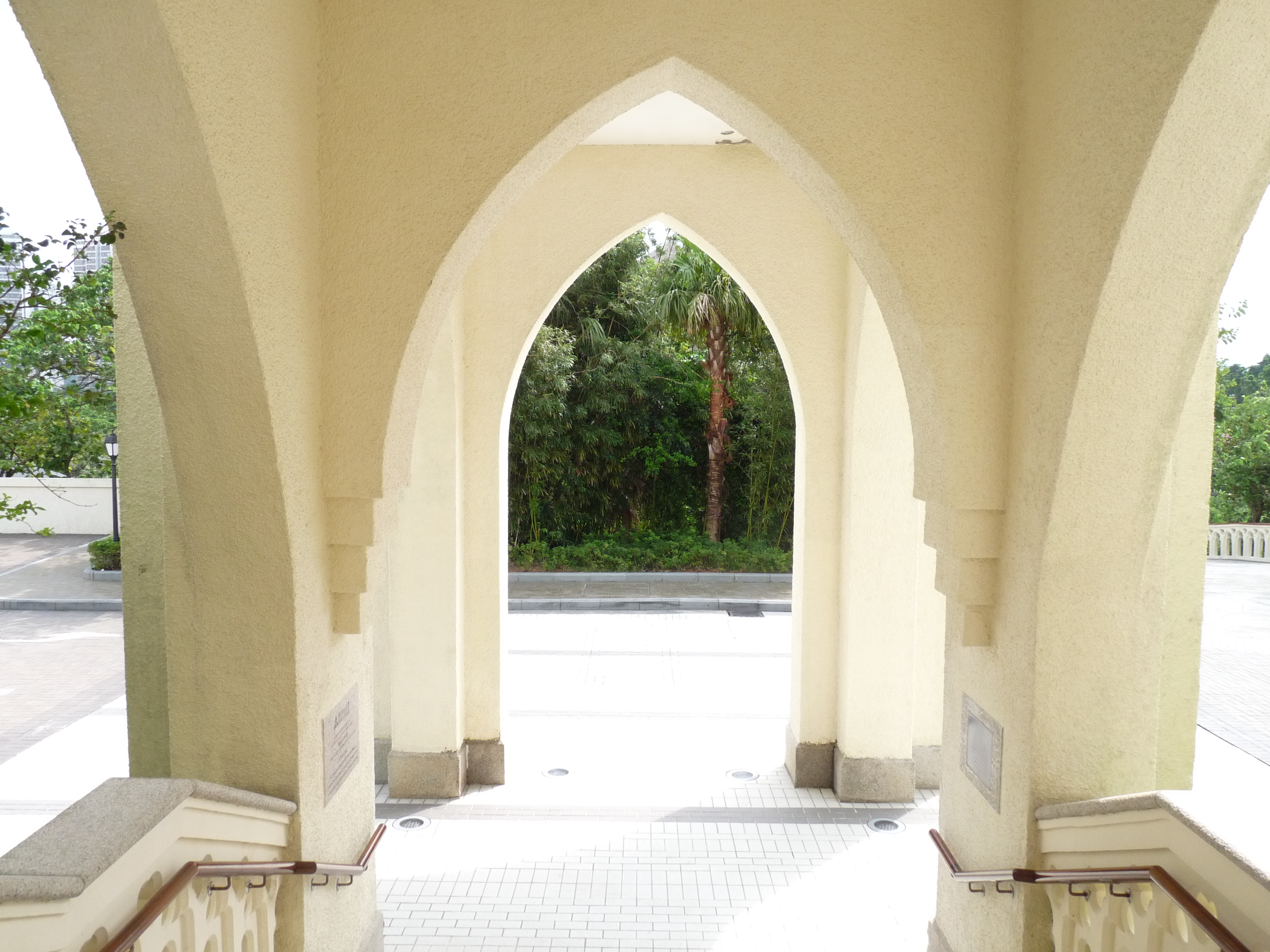 Neo-gothic structures can be found around Bethanie, Hong Kong.